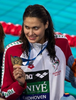 Zsuzsanna Jakabos during European short course swimming championships 2010 in Eindhoven